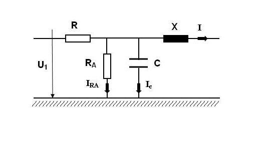 Equivalent circuit of a high-tension cable.